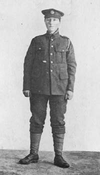 Dorothy Lawrence in 1915